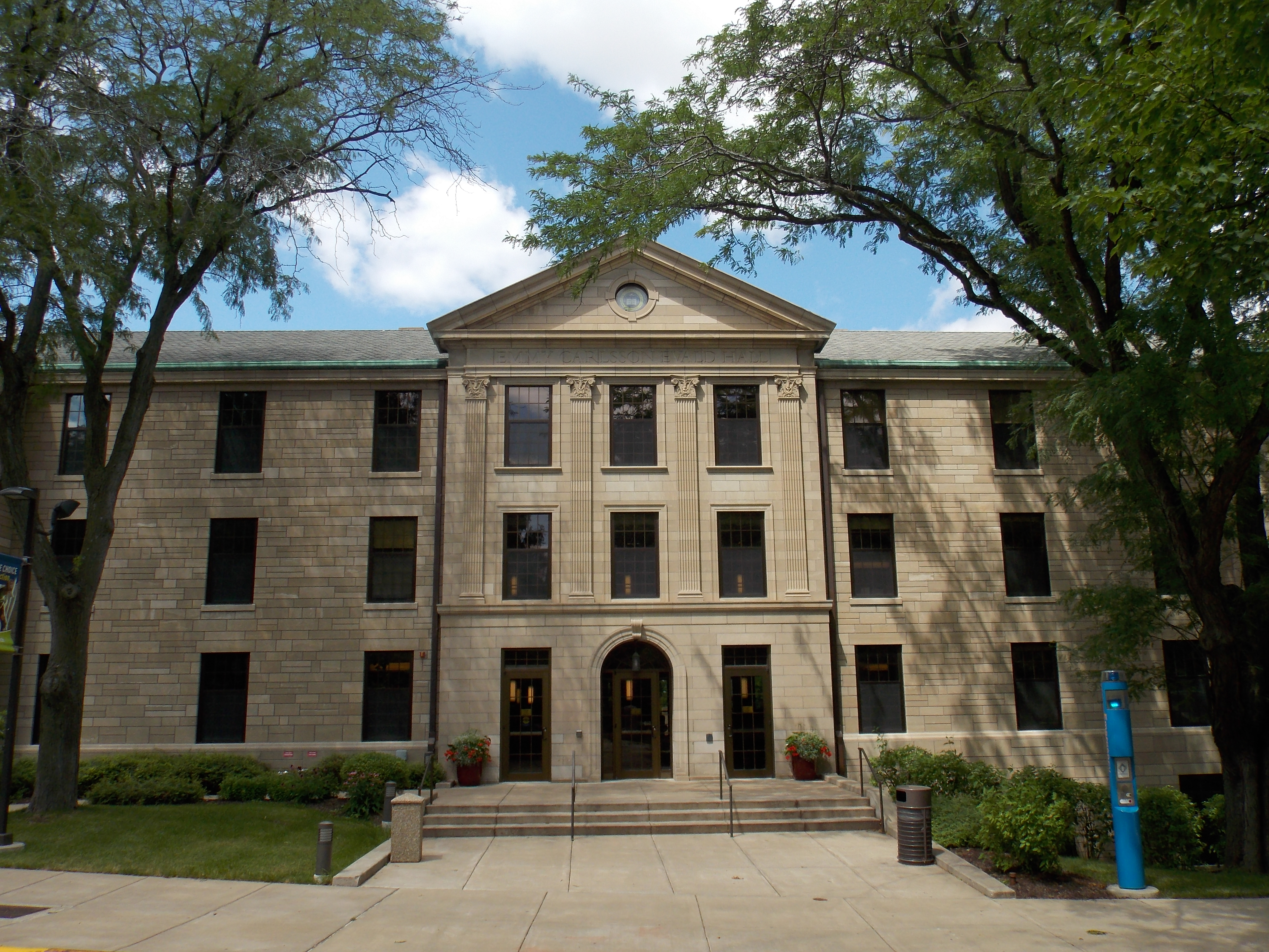 Emily Carlsson Evald Hall on the campus of Augustana College in Rock Island, Illinois.